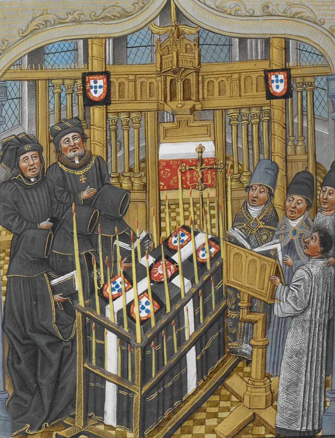 Chapelle ardente of the King of Portugal, Ferdinand I (died 1383).